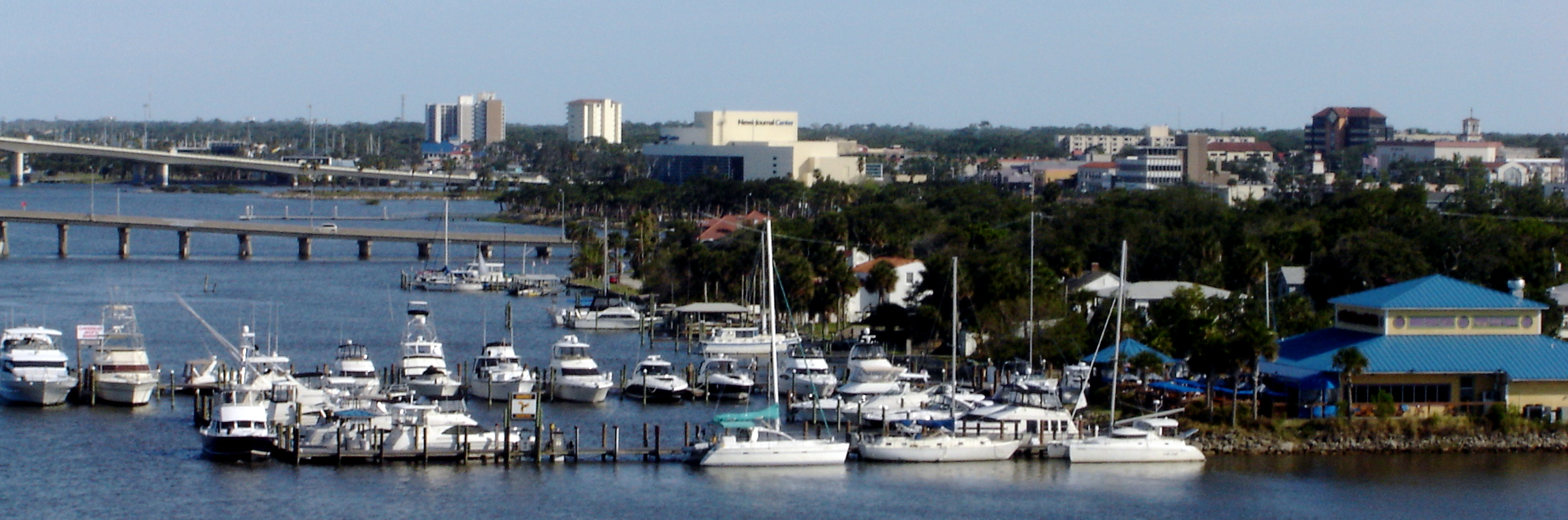 Daytona Beach, view of south Beach St.